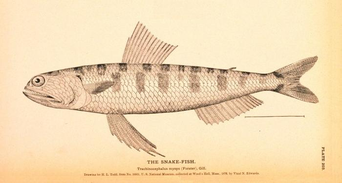 Trachinocephalus myops on bottom